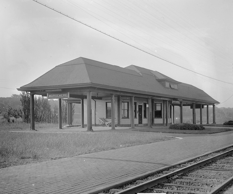 Morsemere, Ridgefield, NJ; photo circa 1900-1909. Print from a glass plate negative, Erie Railroad photo. New York Division. From the collection of Steamtown National Historic Site archives, image #B-8